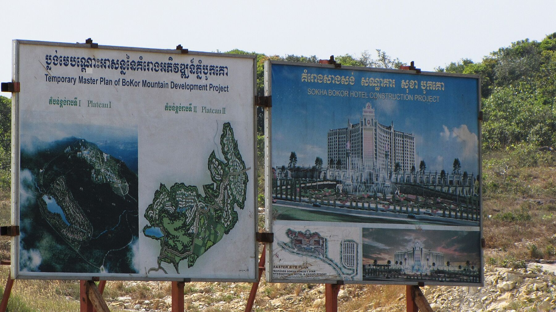 construction site sign of Bokor Hill Master Plan